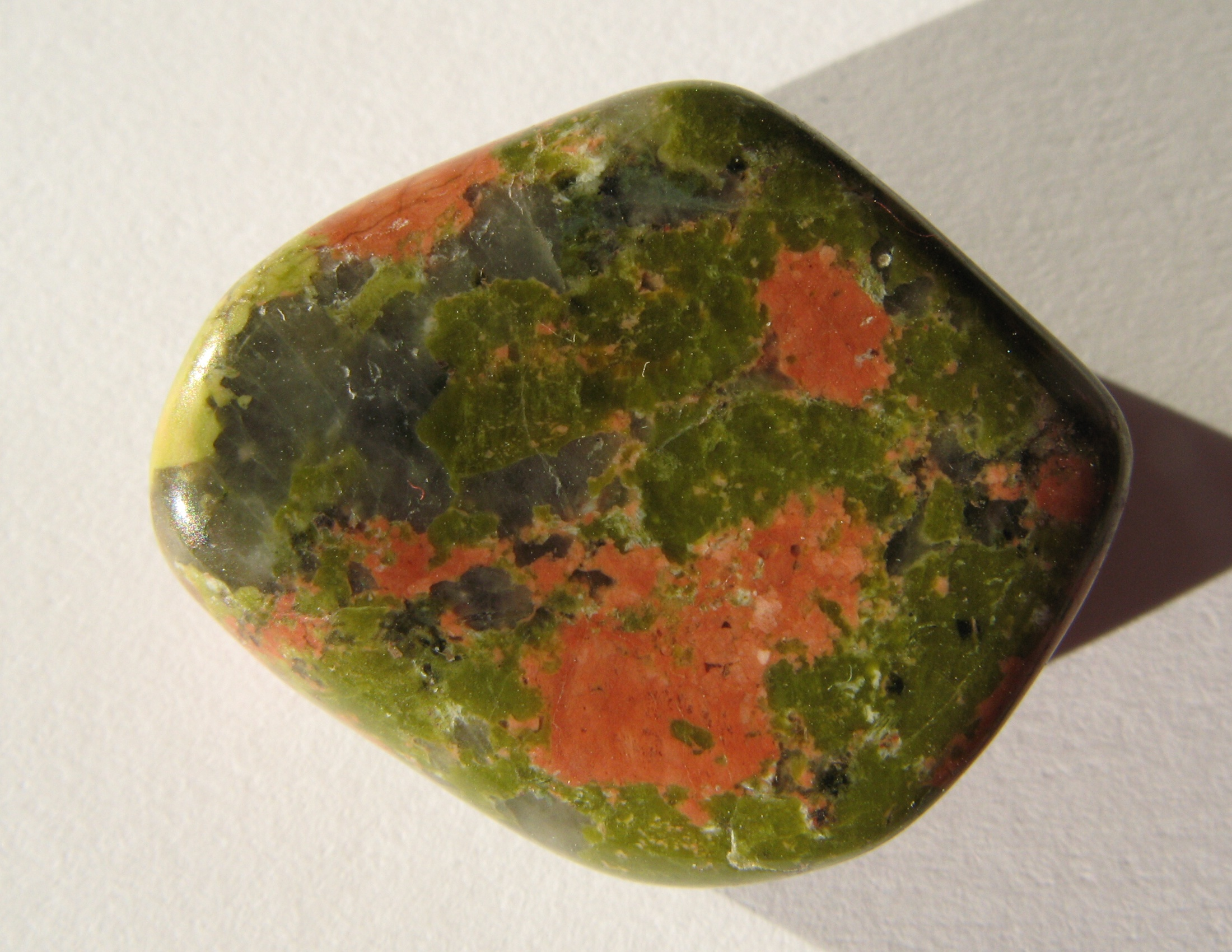 Unakit - tumble polished stone